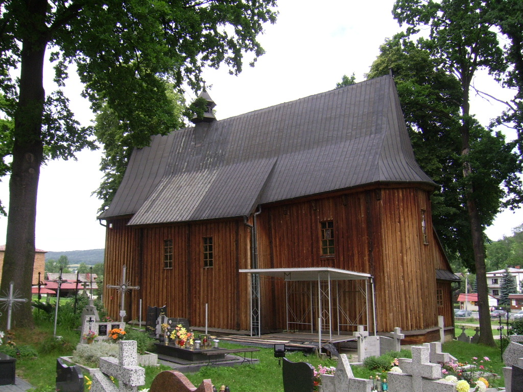 Church of the Visitation of the Most Blessed Virgin Mary in Iwkowa, Poland. 15th-17th century.